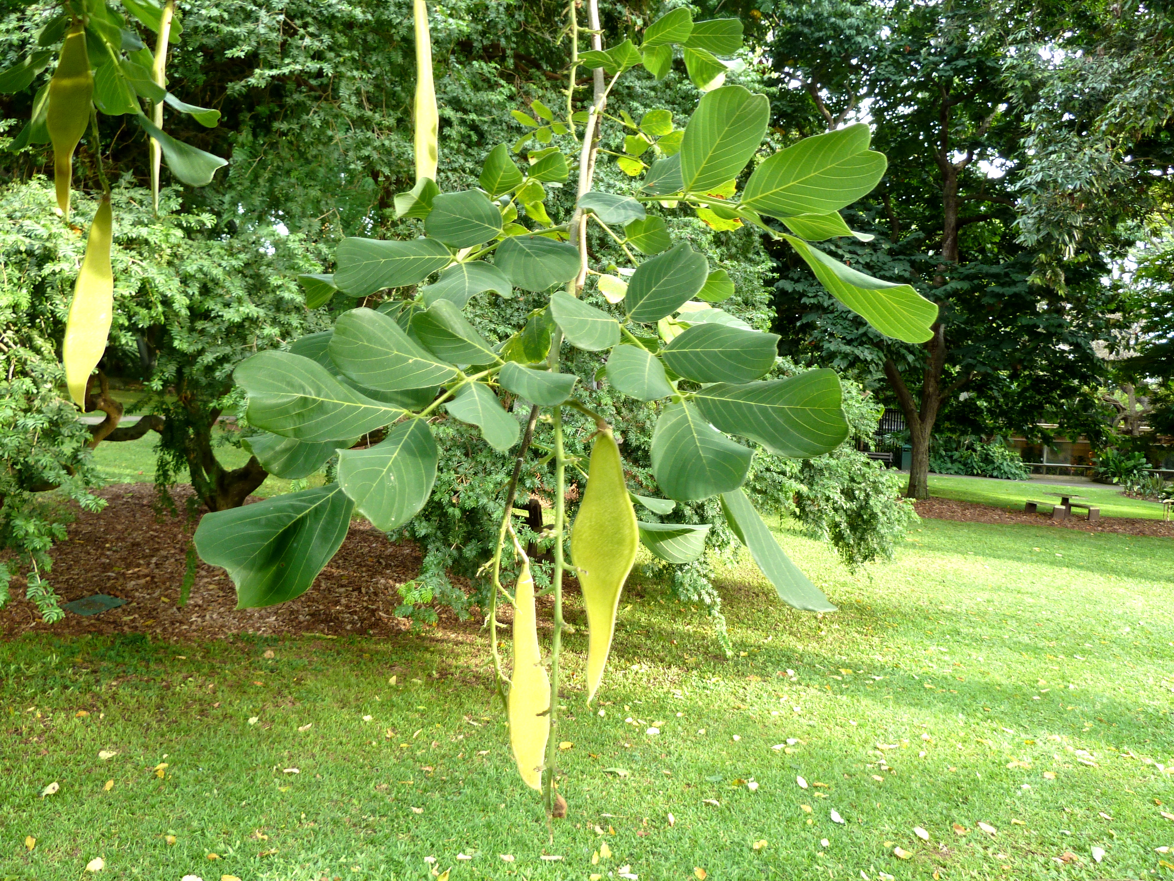 Foliage and seed pods of Panga panga at Foster Botanical Garden in Honolulu, Hawaii